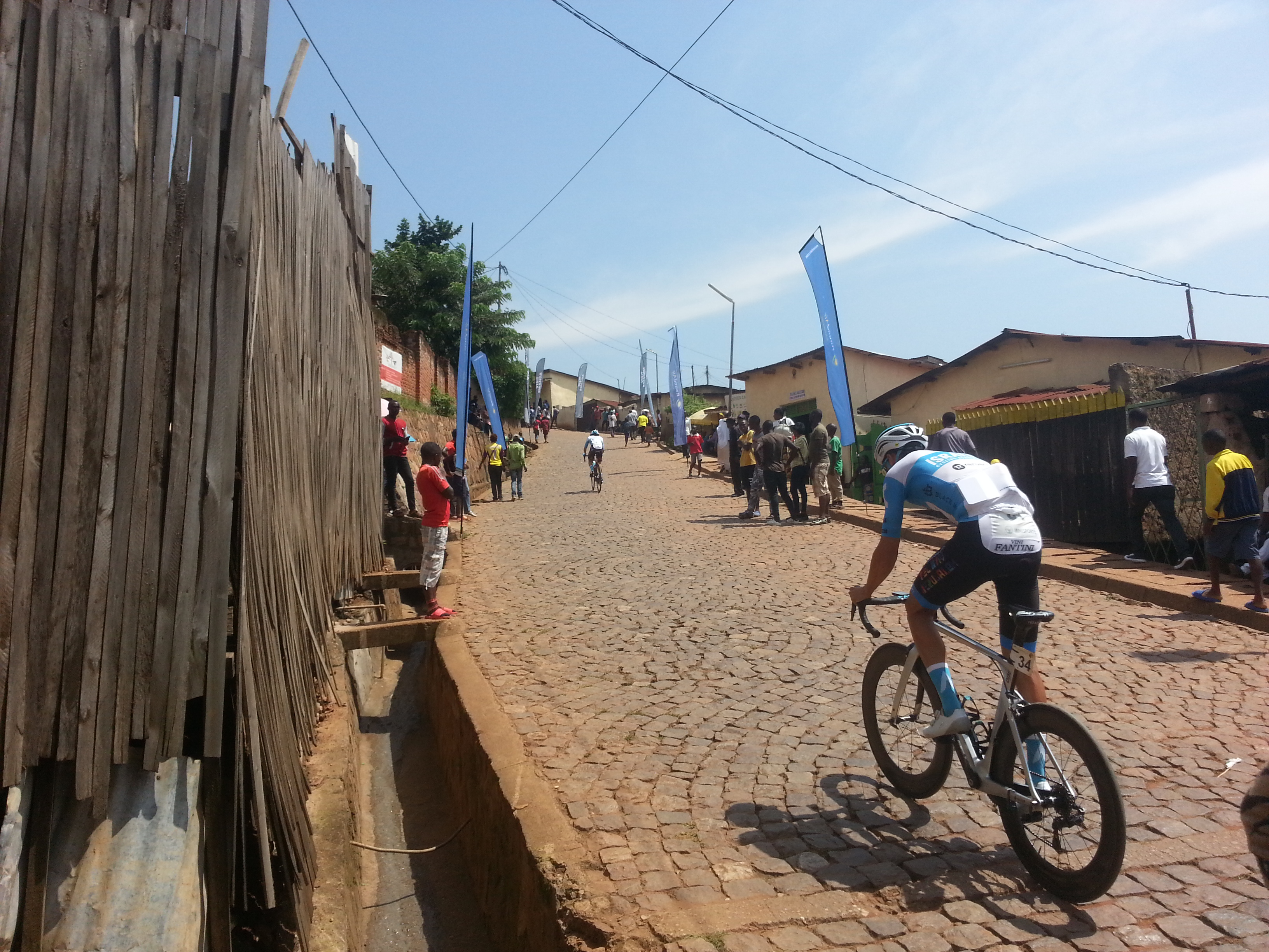 Kinyarwanda: Izuba This is an image with the theme "Africa on the Move or Transport" from: Rwanda